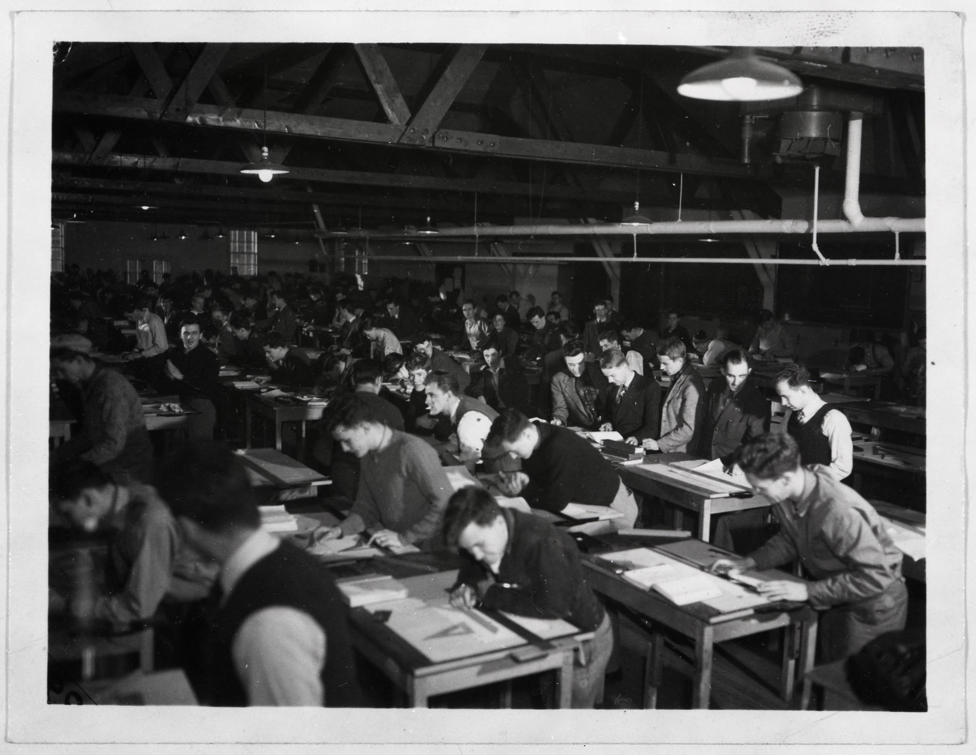 Archive Photo of a Dawson College Lecture